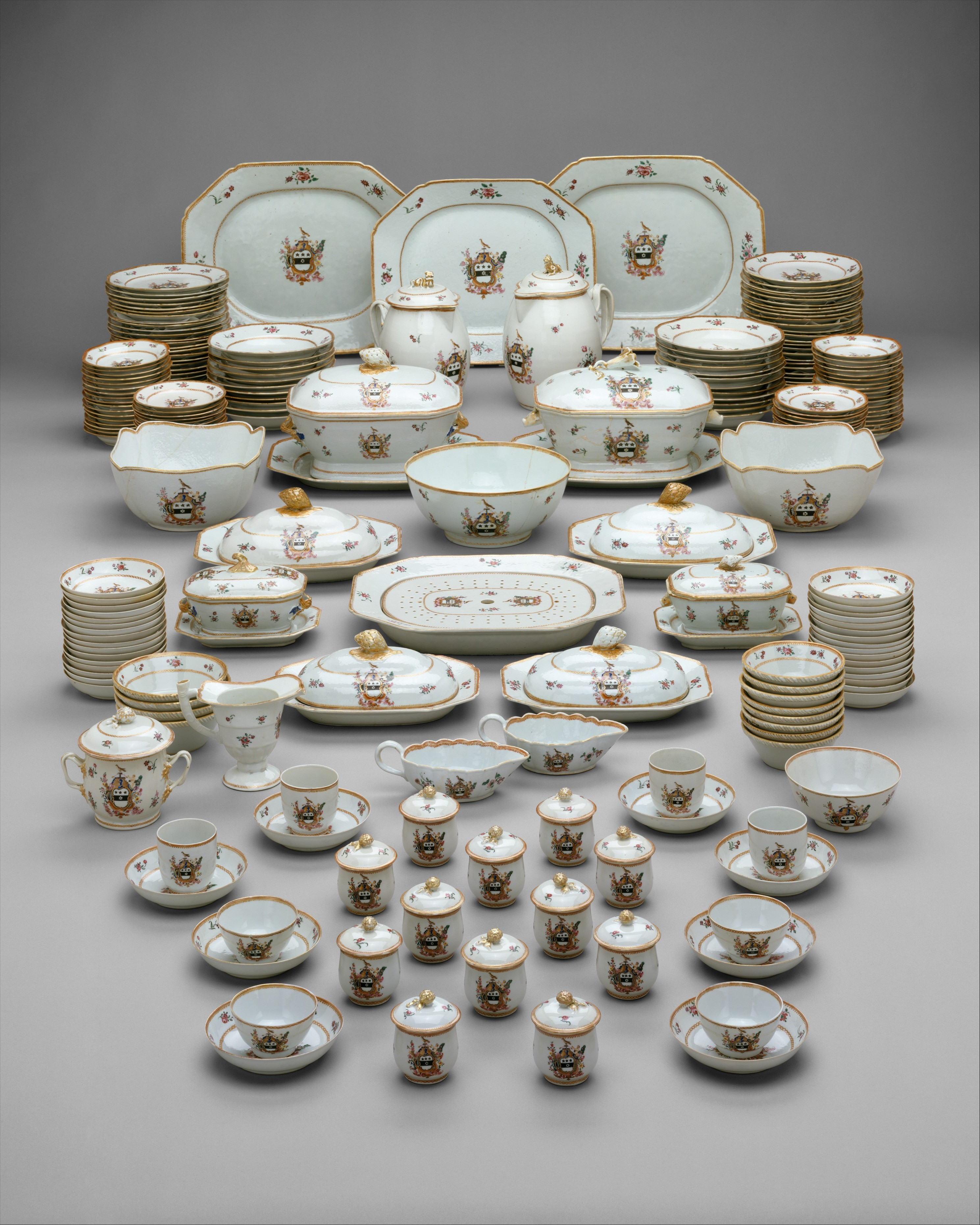 Chinese, for American market; Table service; Ceramics